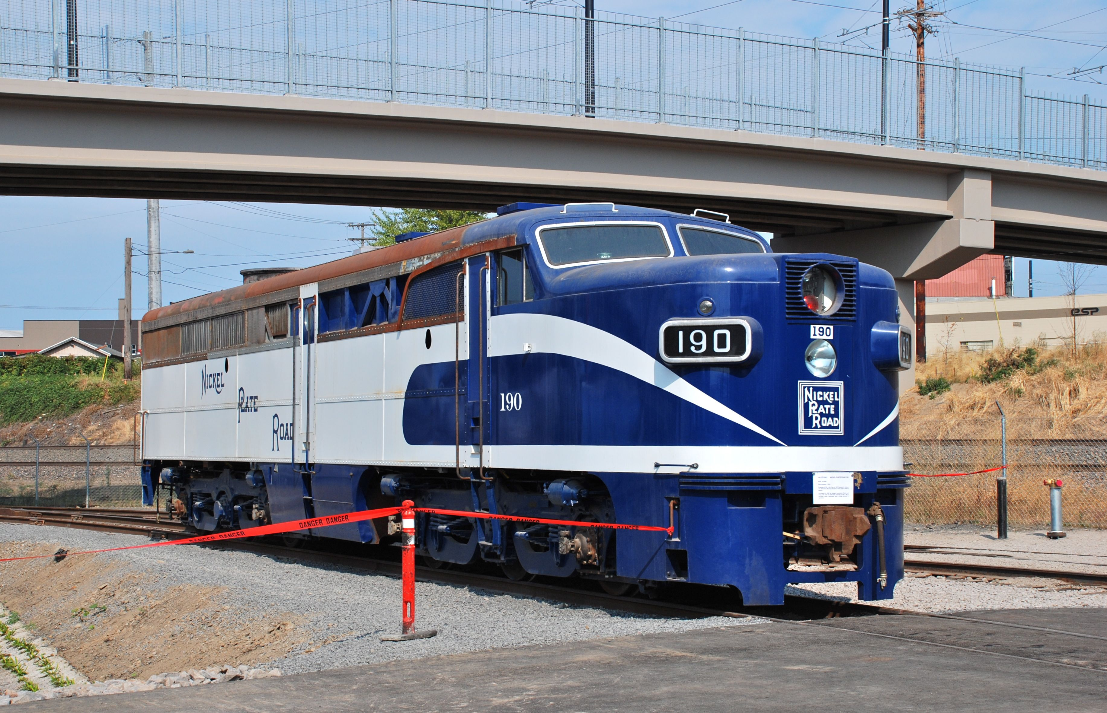 Nickel Plate Road 190 on display at the Oregon Rail Heritage Center.